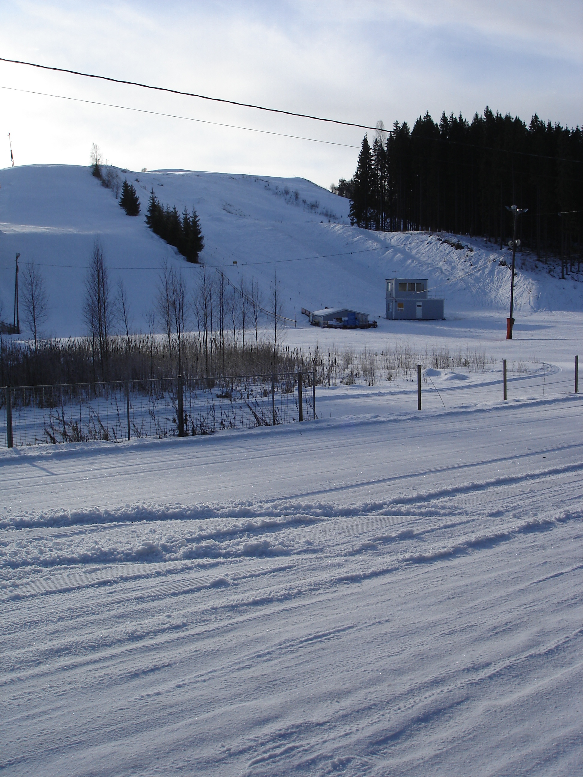 South Karelia, Finland